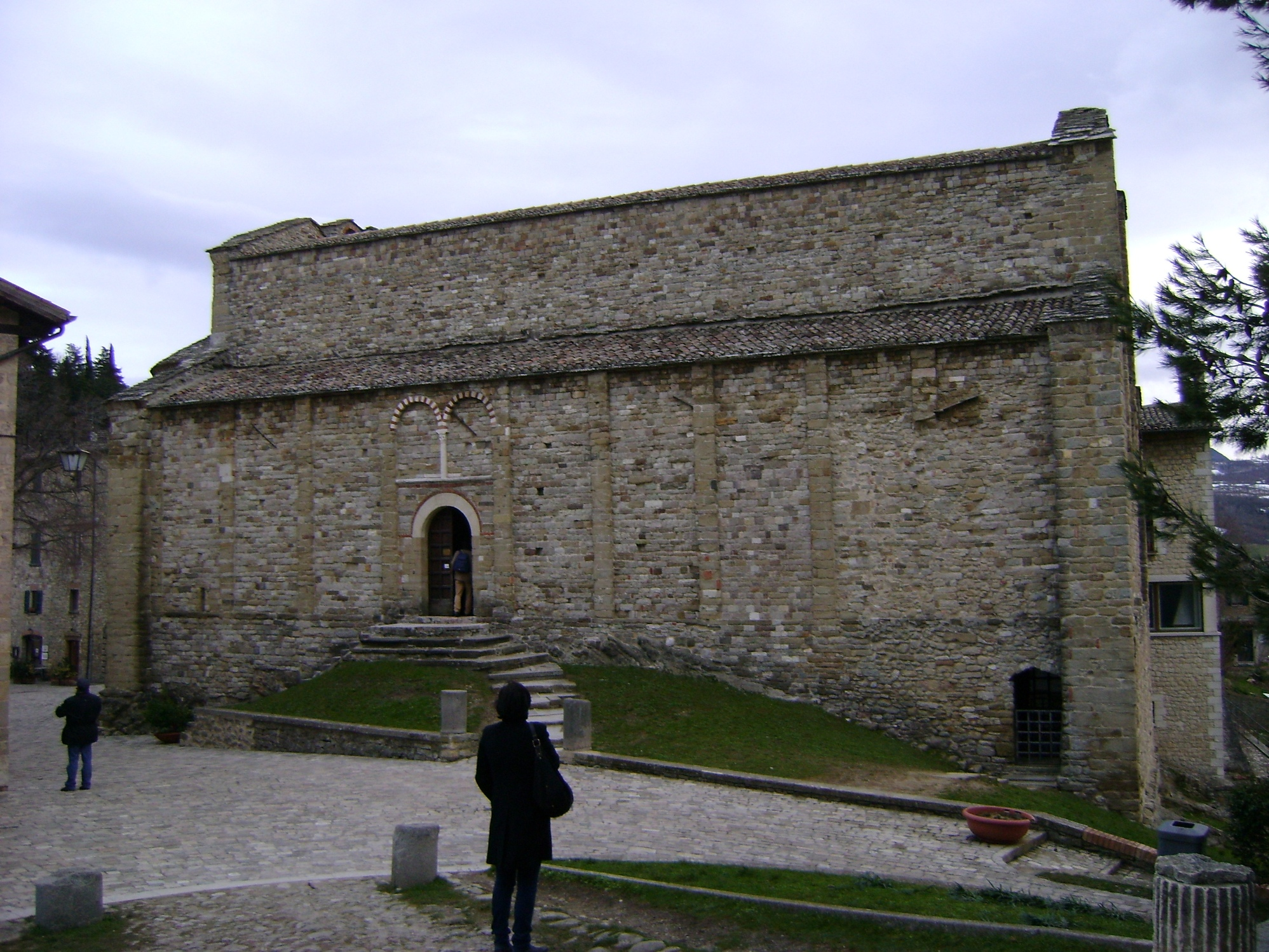 The parish church of Santa Maria Assunta, San Leo, province of Rimini, Emilia-Romagna